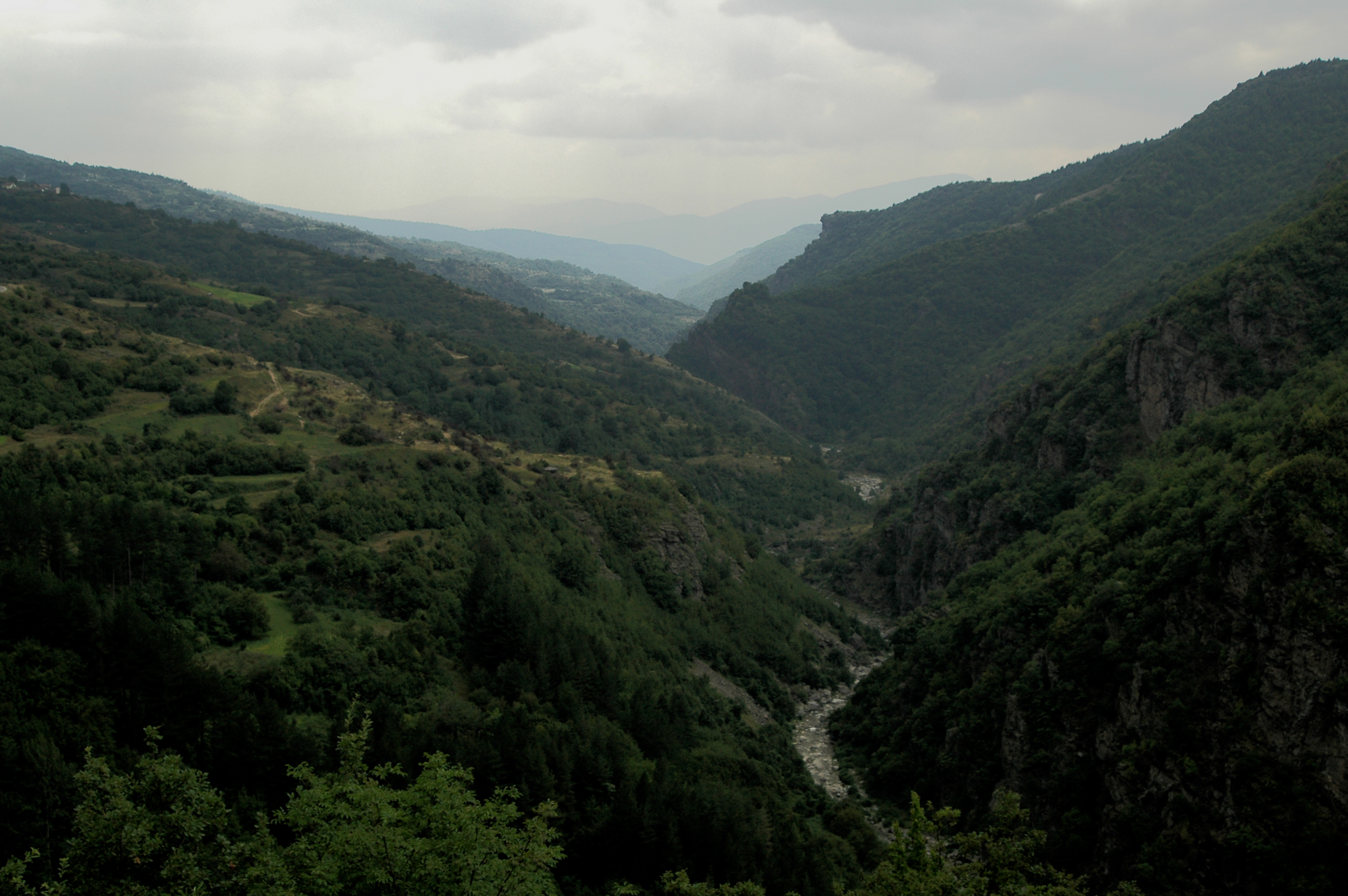 Western Rhodope Mountains, Kanina river valley